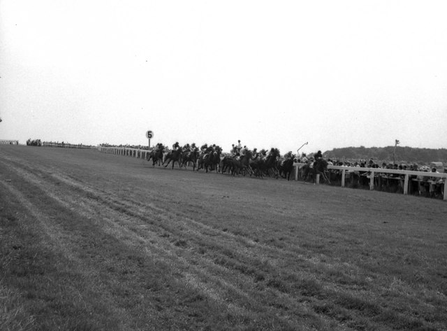 The Derby, 1971 As the horses prepare to round Tattenham Corner, the winner Mill Reef was already in the lead